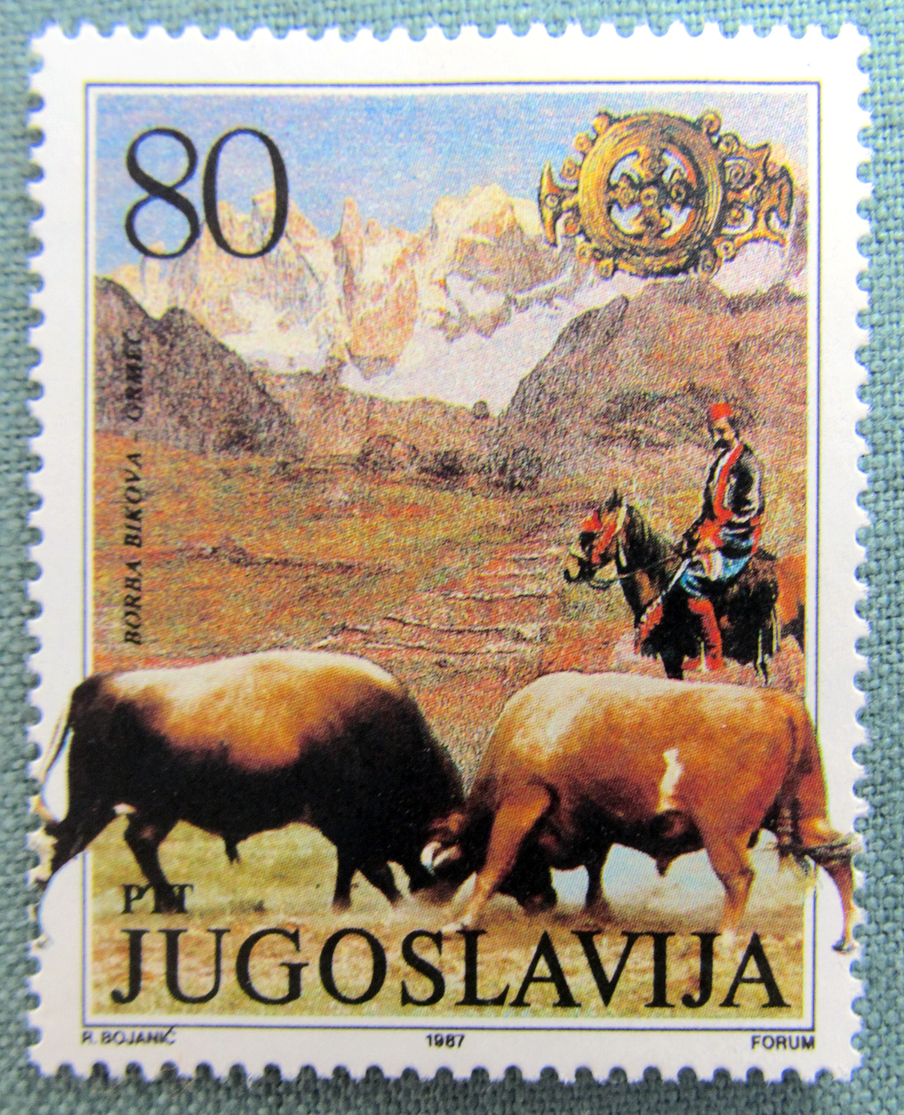 Corrida of Grmec (Yugoslavia stamp, 1987)